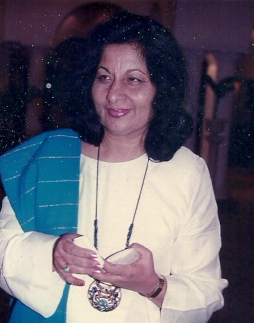 Scanned photograph of my grandmother, Bhanu Athaiya.